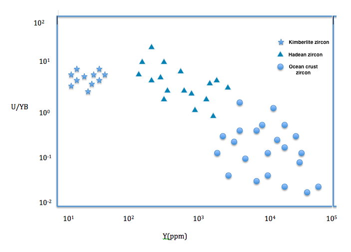 Different shape represent different type of zircon